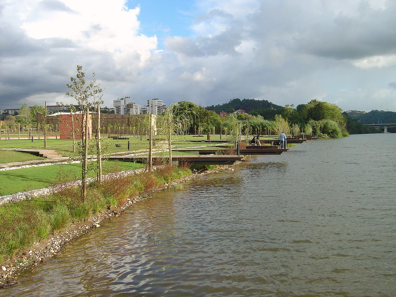 See where this picture was taken. [?]